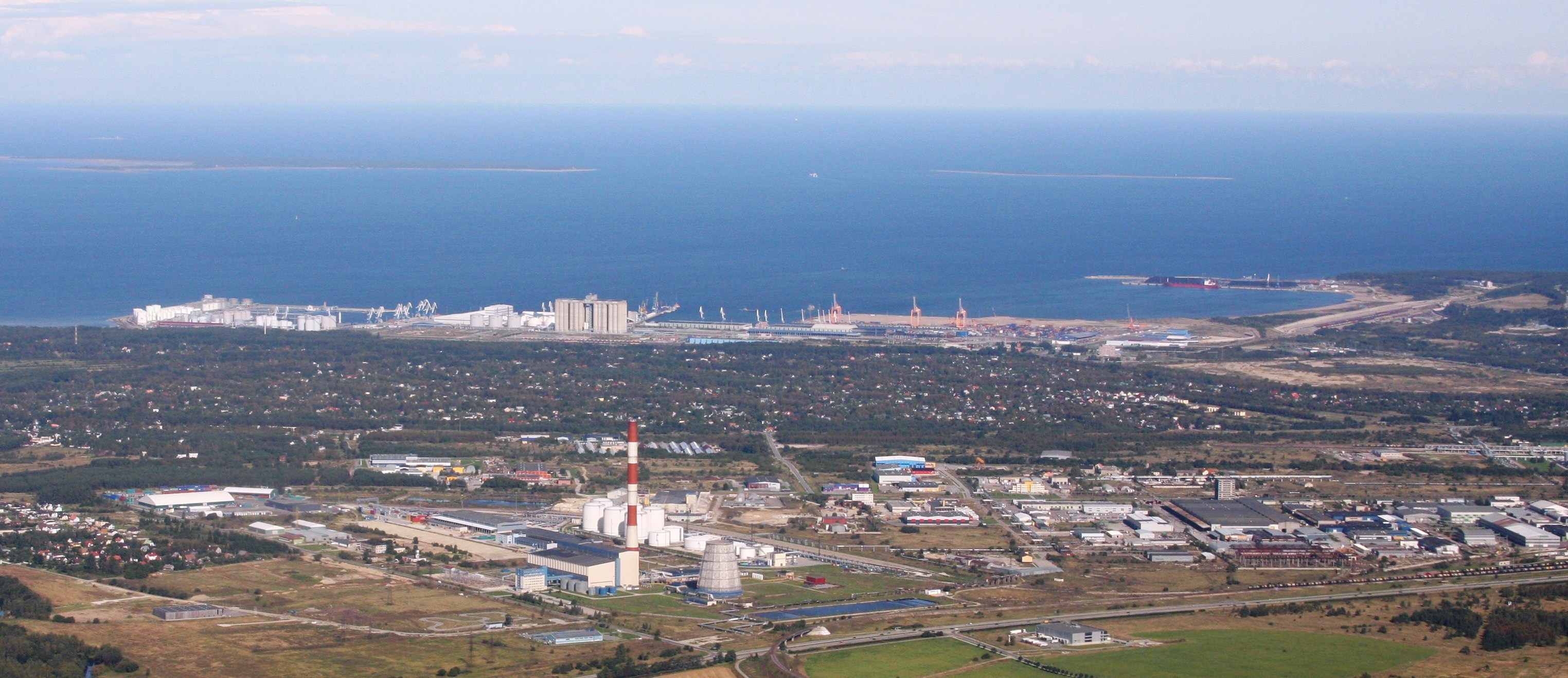 Muuga harbour in Maardu municipality, just east of Tallinn, Estonia.